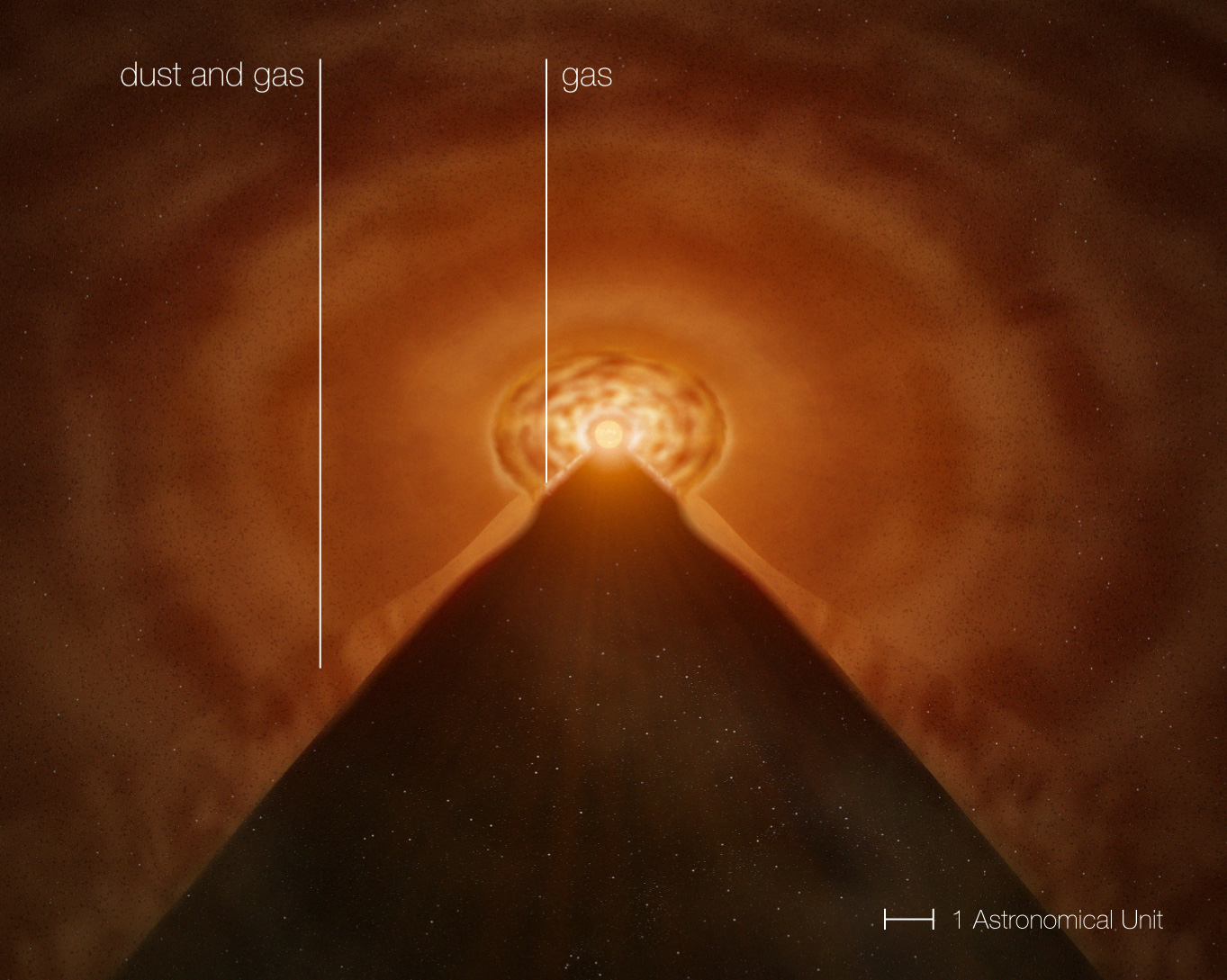 Artist's impression of the disc of matter surrounding the young stellar object MWC 147 as inferred from observations made with ESO's Very Large Telescope Interferometer. Thanks to these observations, astronomers have probed the inner parts of the disc of material surrounding the MWC 147, witnessing how it gains its mass before becoming an adult. A slice has been cut to show the inner structure better. The disc extends out to 100 times the distance between the Earth and the Sun (100 Astronomical Units — 100 AU). It is inclined by about 50 degrees as seen from Earth. The dust in the outer disc emits mainly at mid-infrared wavelengths, while close to the star there is also strong near-infrared emission from very hot gas. This gas is transported towards the forming star, increasing its mass at a rate of 7 millionths of the mass of the Sun — or about 2 times the mass of the Earth — per year.